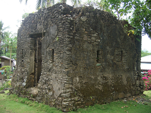 Old Spanish Camp, Barangay Militar, Tukuran, Zamboanga del Sur, Philippines